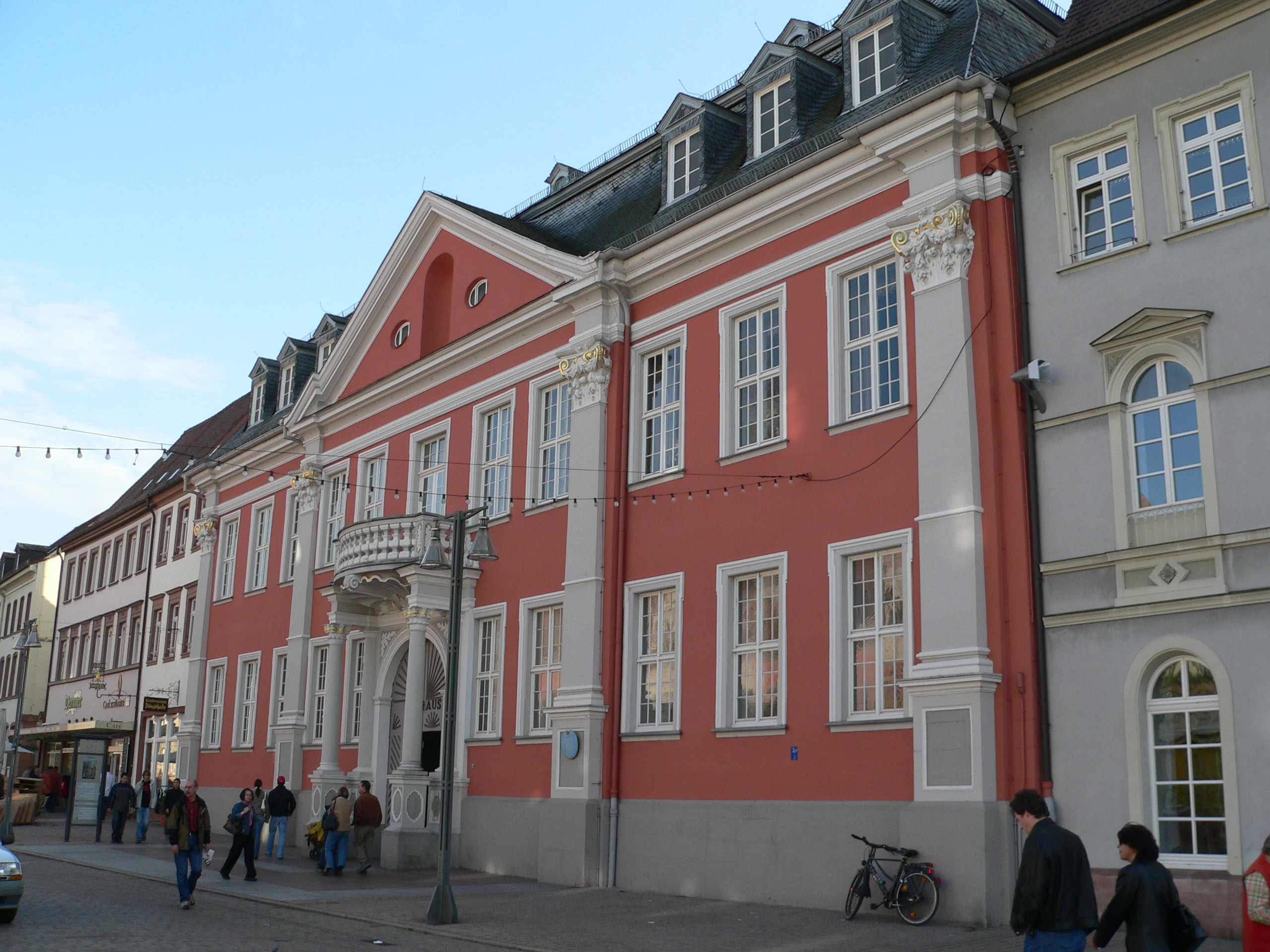 Former Town Hall Of Speyer, erected between 1712 and 1726 by Johann Adam Breunig